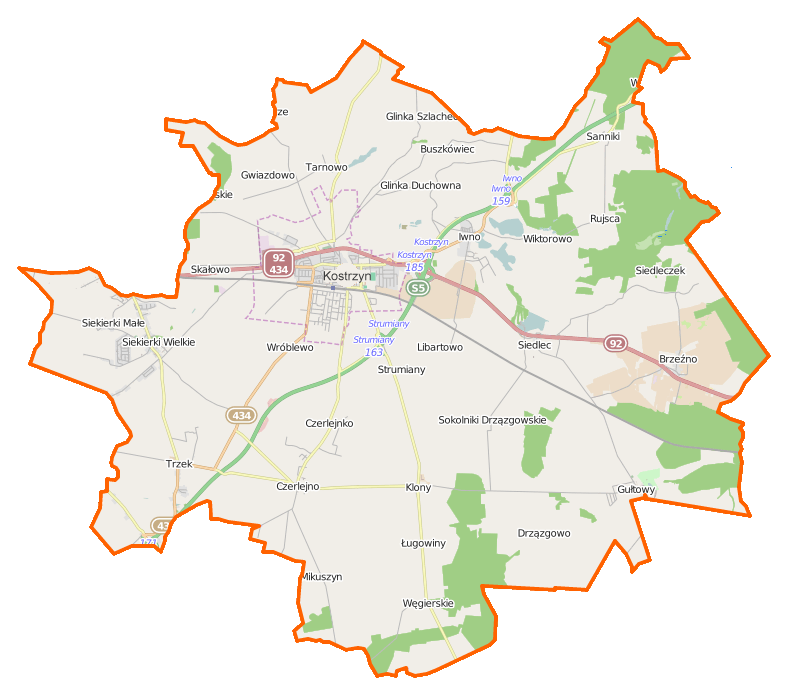 Map of Gmina Kostrzyn, Poland This map of Kostrzyn (gmina) was created from OpenStreetMap project data, collected by the community. This map may be incomplete, and may contain errors. Don't rely solely on it for navigation. Border coordinates52.453517.1112←↕→17.383552.3074